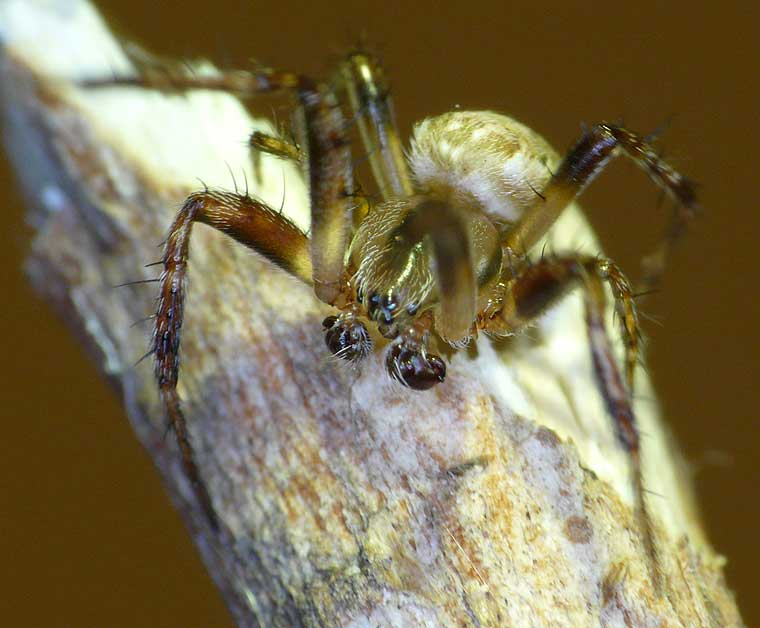 A very common small spider (females ranging from 4mm to 8mm) with colourful markings found in dry scrub. This species builds a vertical orb web, and stays there day and night. The web of some of these spiders has been seen to be decorated with nearly vertical stabilimentum (like a clockface at 5 minutes to 5 or its mirror image).